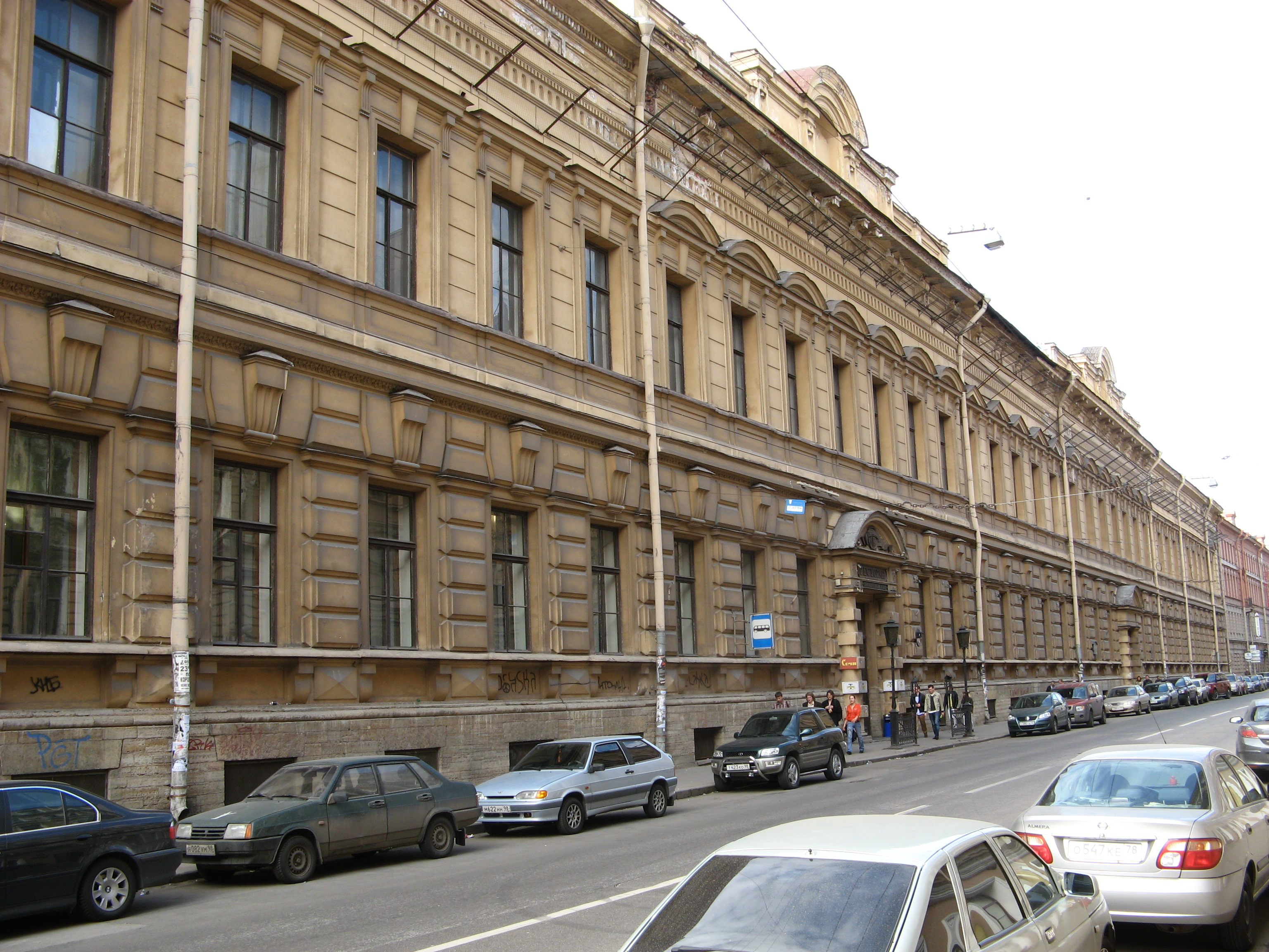 Kazanskaj street, 7 (Saint-Petersburg)